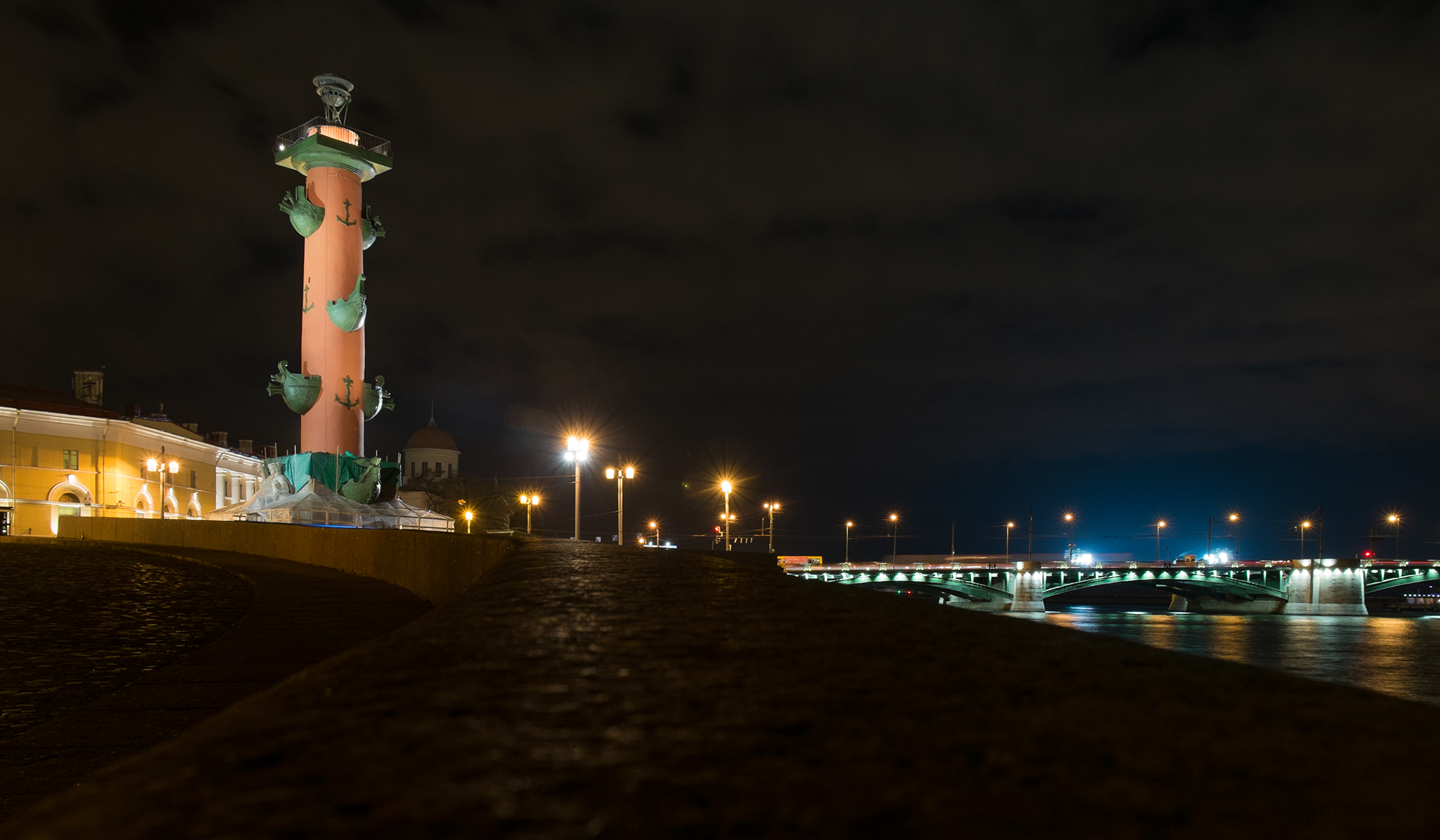 Rostral column on Vasilievsky Island (Saint Petersburg, Russia)